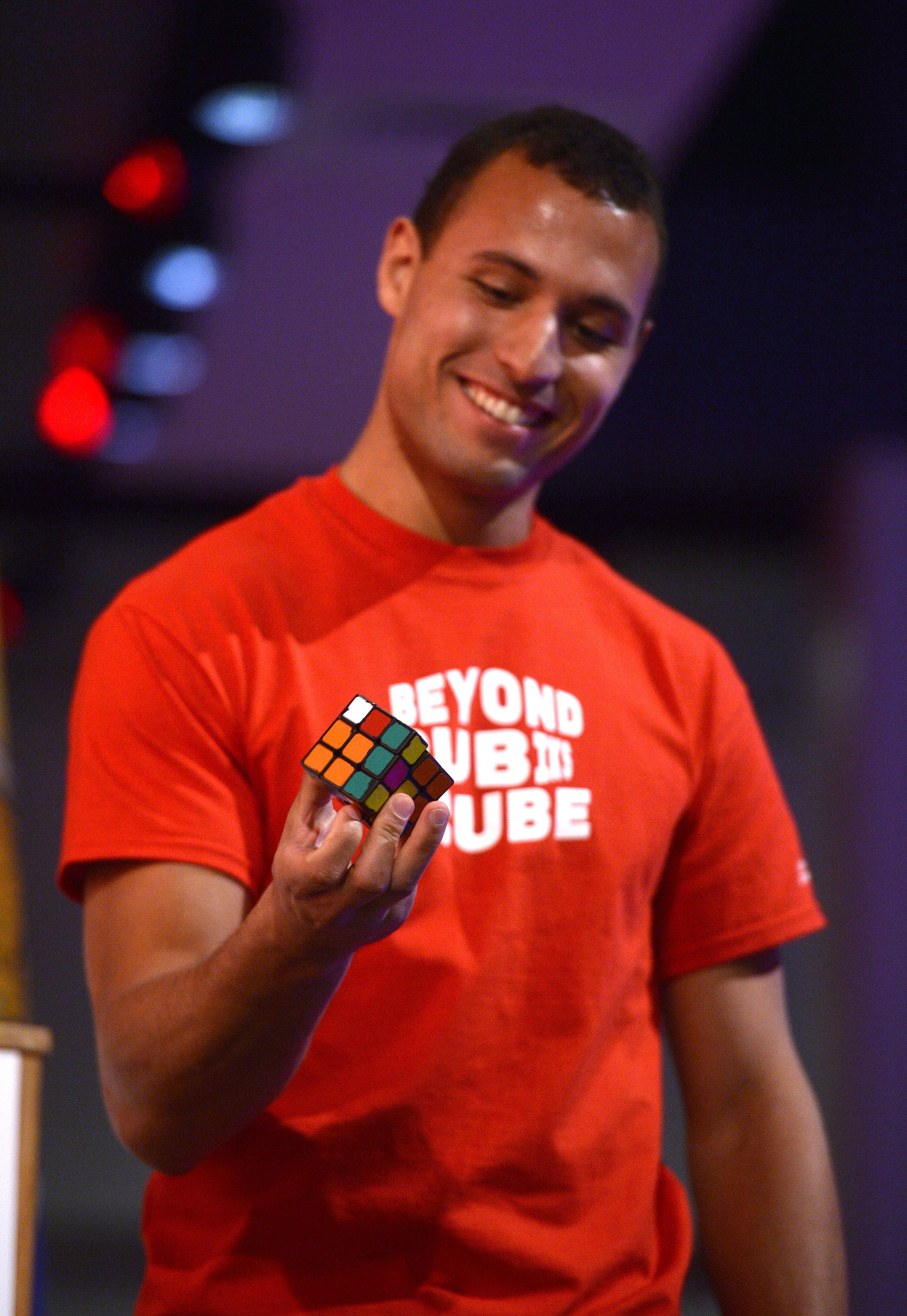 Anthony Brooks performing a One-Handed Solve at a Beyond Rubik's Cube Event